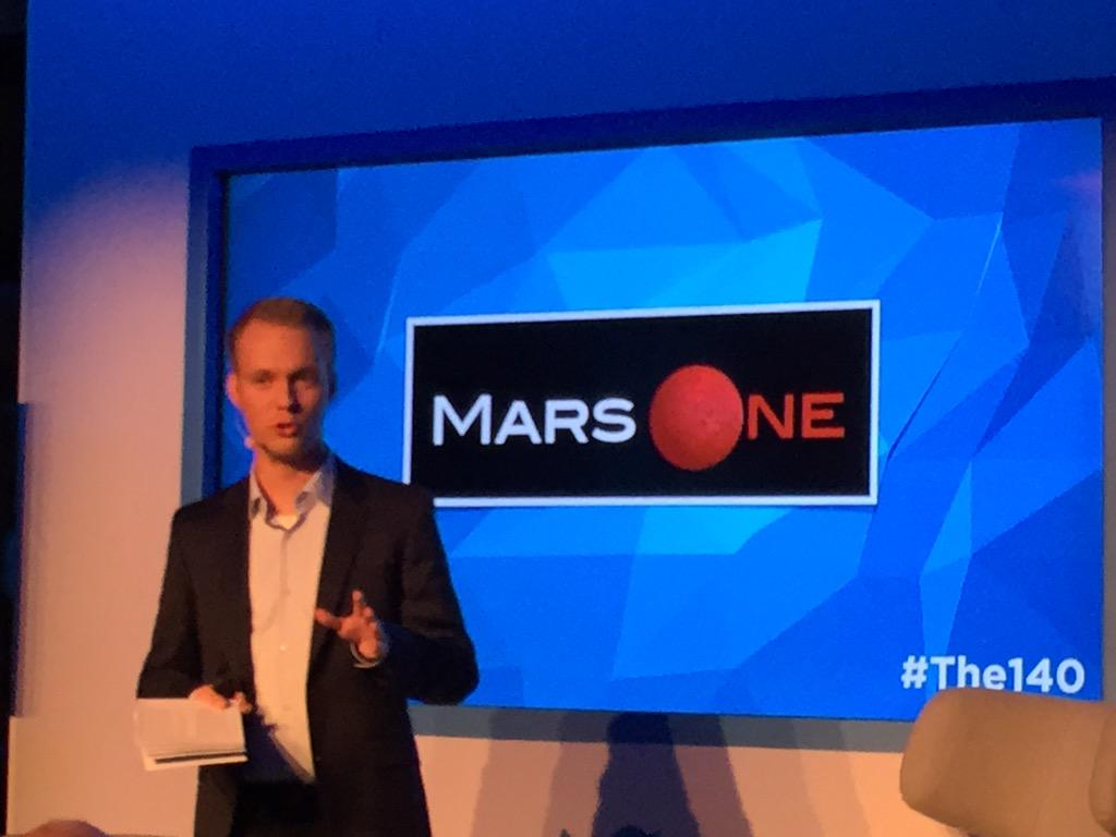 Nico Marquardt presenting at the Twitter event #The140, together with Dick Costolo, Kayvon Beykpour, Kai Diekmann, and Dagi Bee